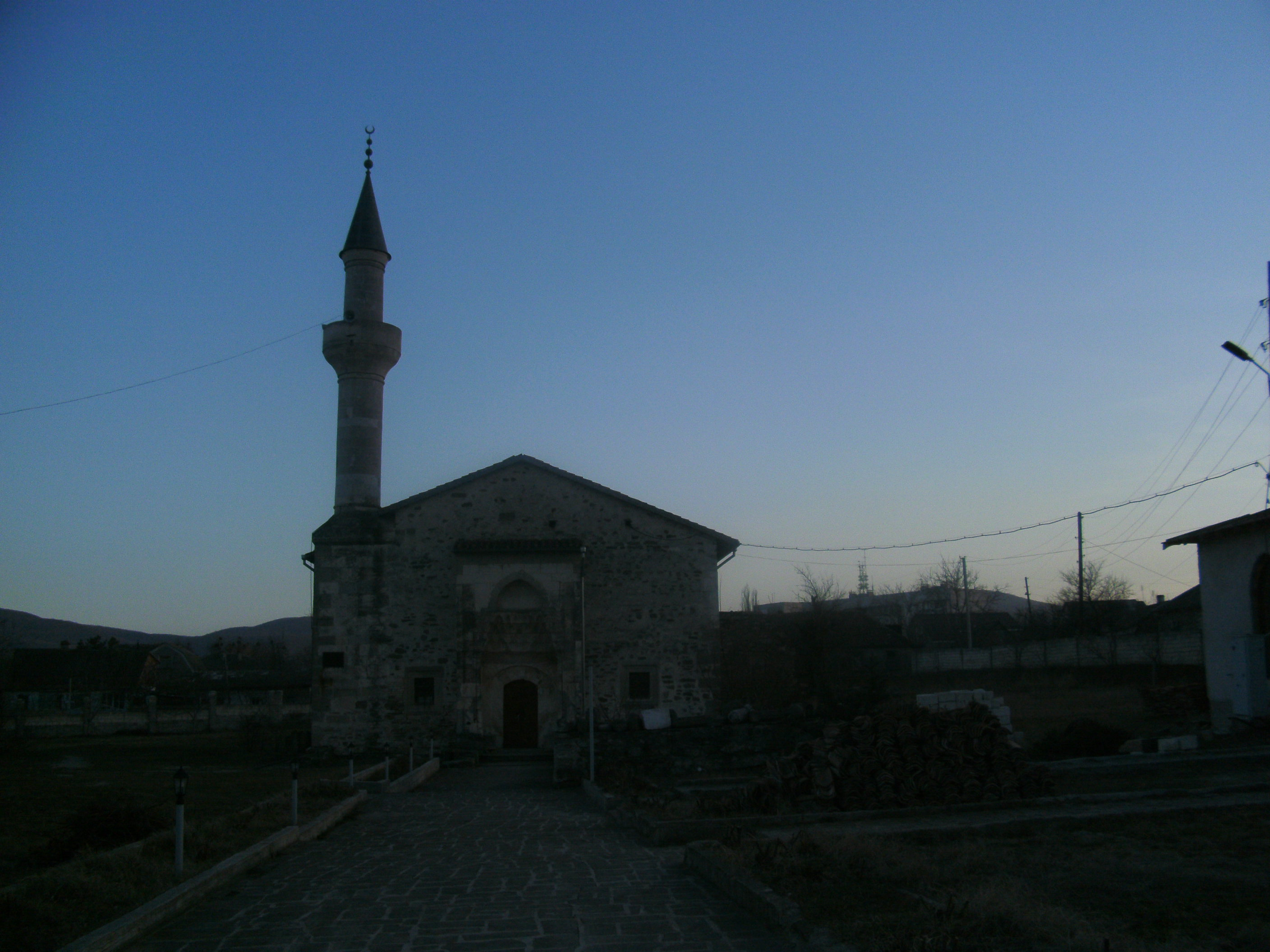 Ukraine, Crimea. Özbek Han Mosque(built in 1314), Eski Kirim (Staryi Krym).